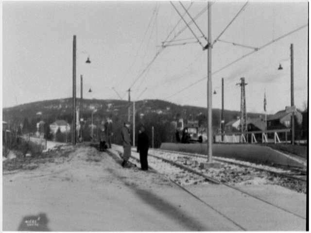 Makrellbakken tram stop on Røabanen, Oslo, Norway.